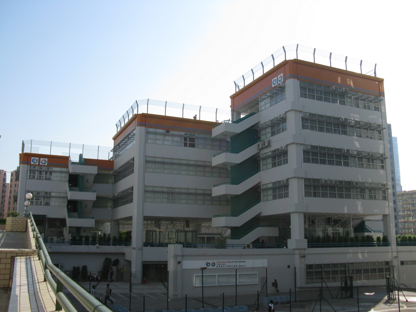 CCCU Telford Annex